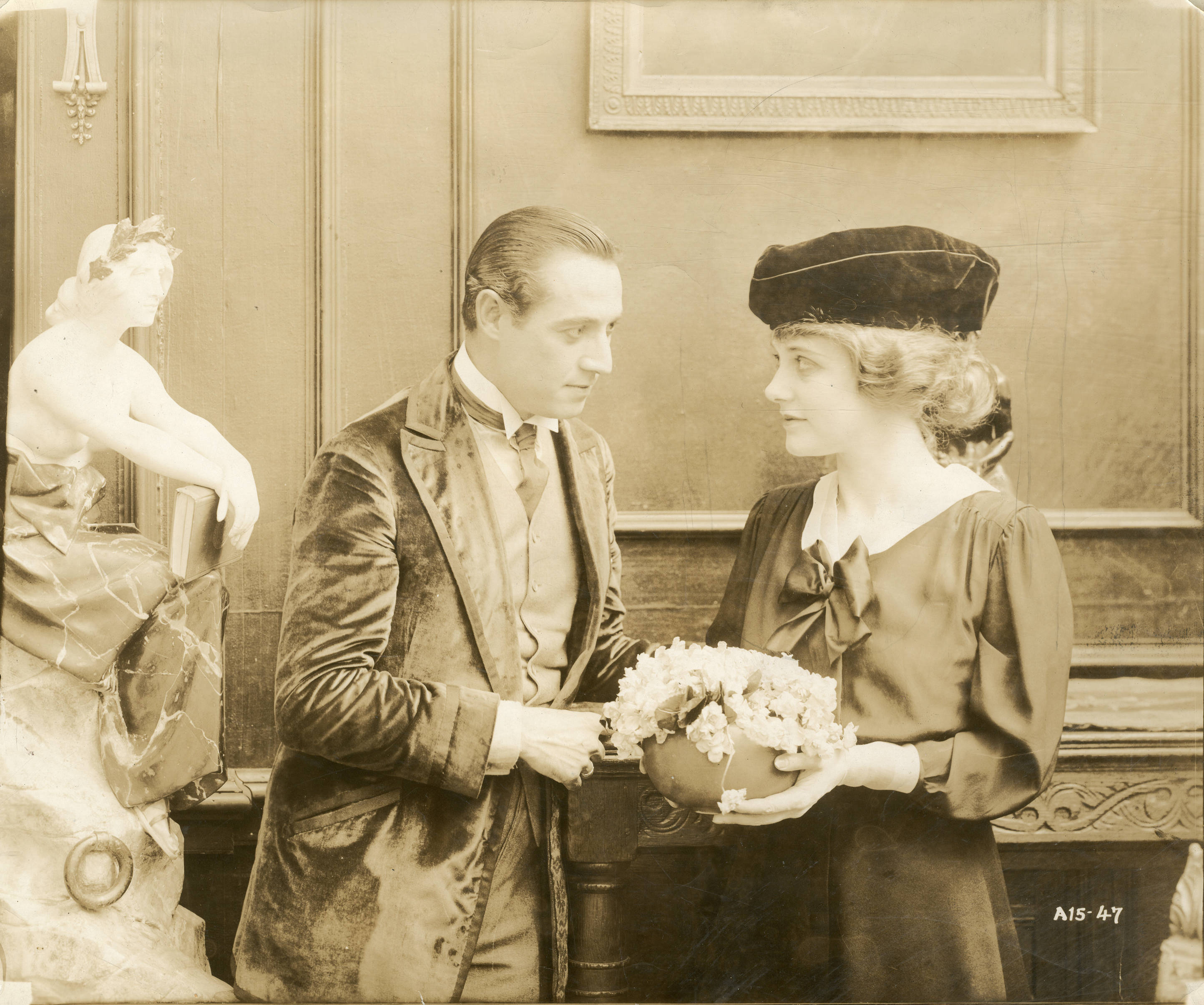 The Rise of Jennie Cushing is a 1917 silent film directed by Maurice Tourneur, produced by Famous Players-Lasky and distributed by Artcraft Pictures, an affiliate of Paramount Pictures. This is a scene from the film.